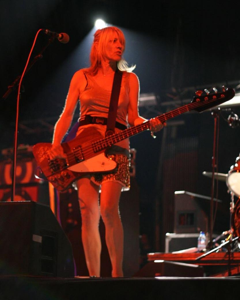 Musician Kim Gordon of the bands Sonic Youth and Free Kitten, performing at Primavera Sound Festival in 2005. Cropped from larger original to focus on Gordon.